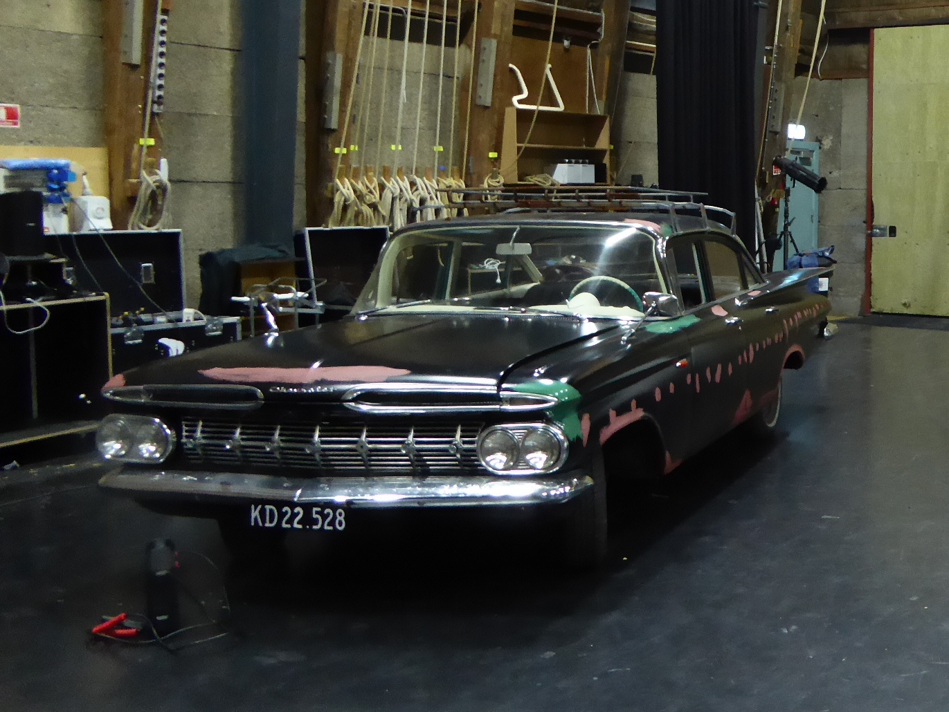 The exhibition Olsen-banden vender hjem at Nordisk Film in Copenhagen with props used in the Olsen-banden films. Chevrolet Bel Air ’59 used by Olsen-banden.